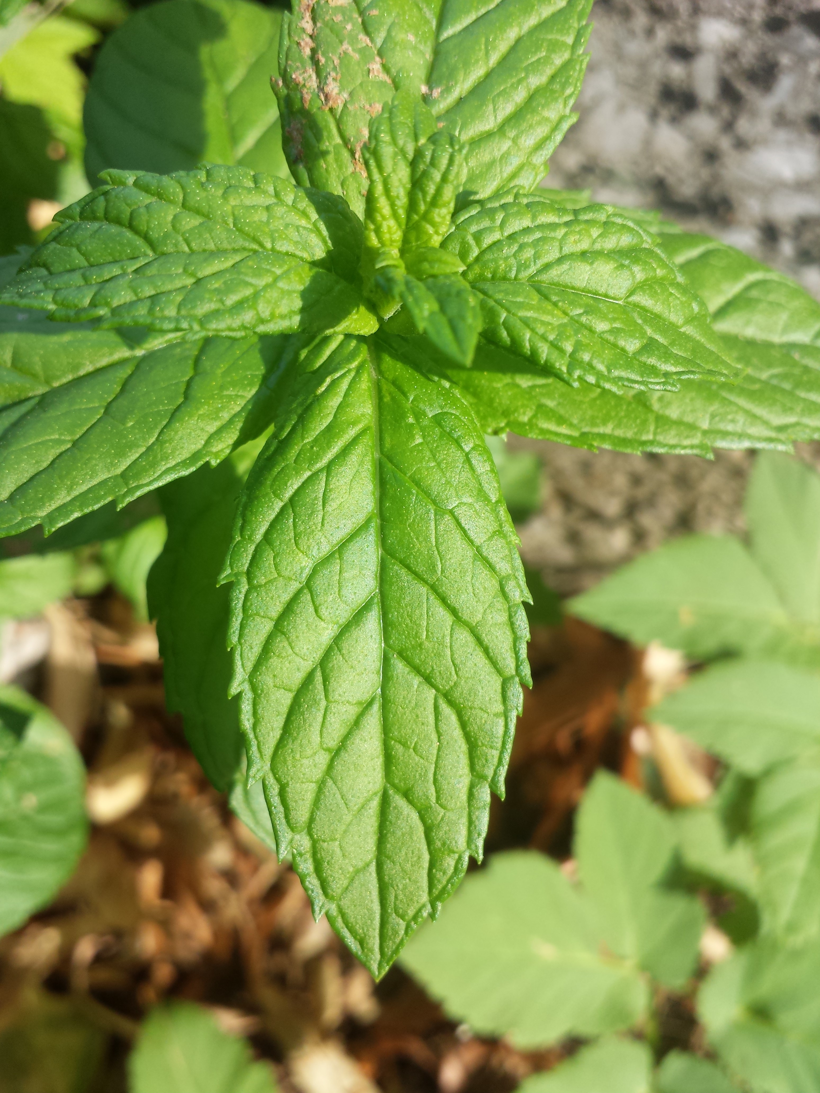 Leaves Taxonym: Mentha spicata ss Fischer et al. EfÖLS 2008 ISBN 978-3-85474-187-9 Location: Jedleseer Friedhof, Vienna-Floridsdorf - ca. 160 m a.s.l. Habitat: ruderal area